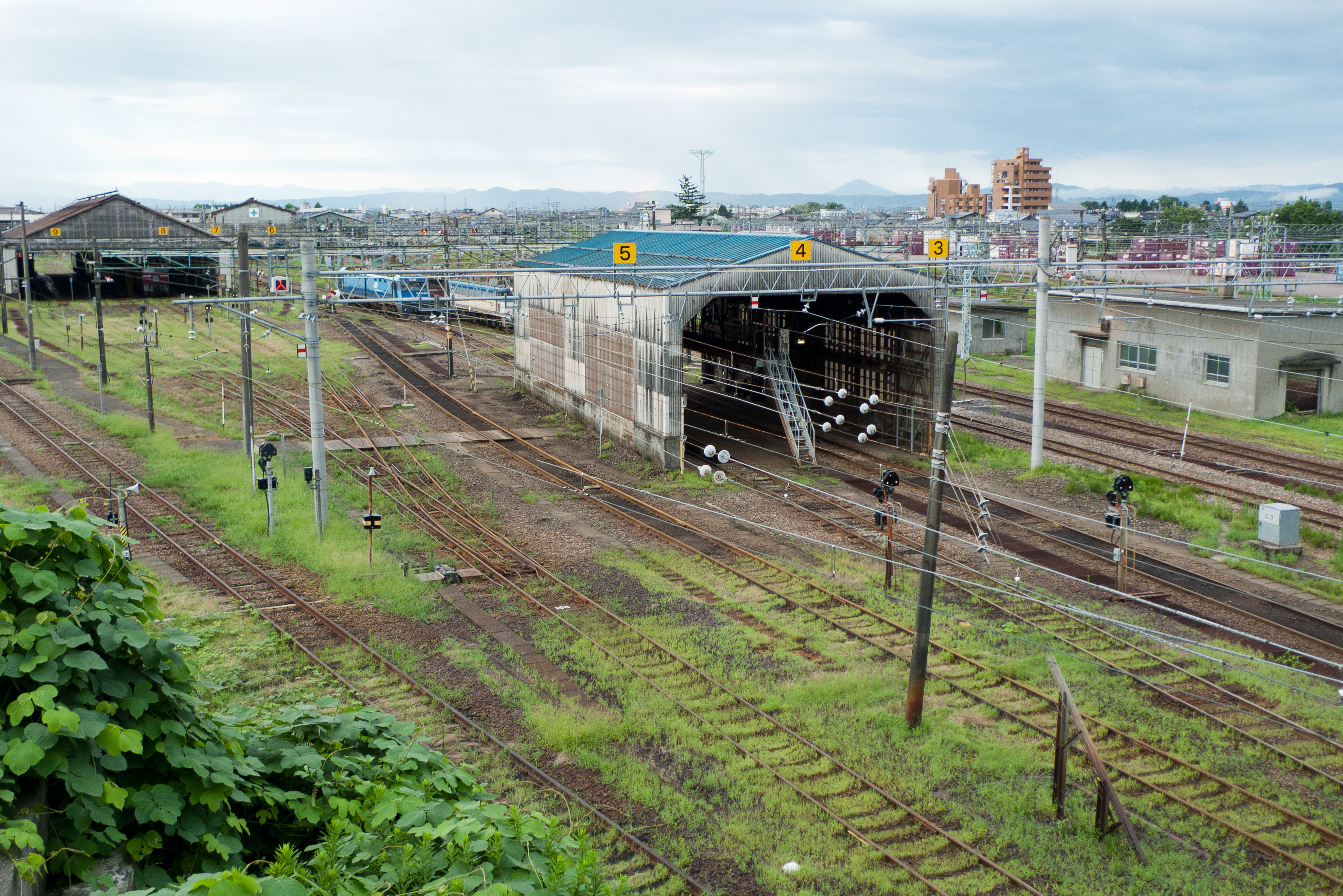 Nagaoka Rolling Stock Center of JR East in Nagaoka, Niigata Prefecture, Japan